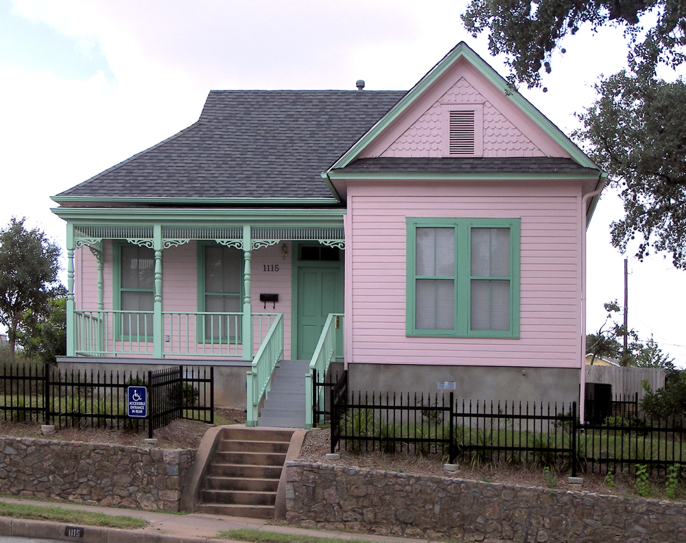 The Connelly-Yerwood House located at 1115 E 12th St, Austin, Texas, United States. The house was listed on the National Register of Historic Places on April 18, 2003.